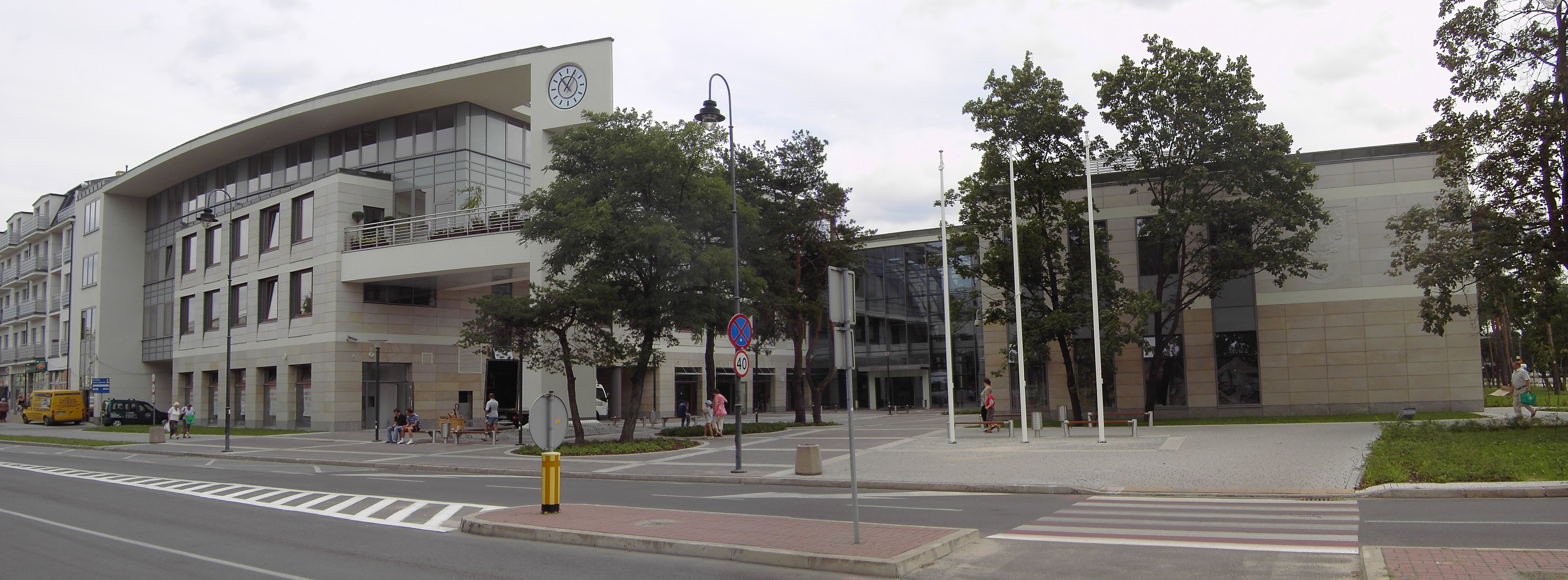 Legionowo, city hall